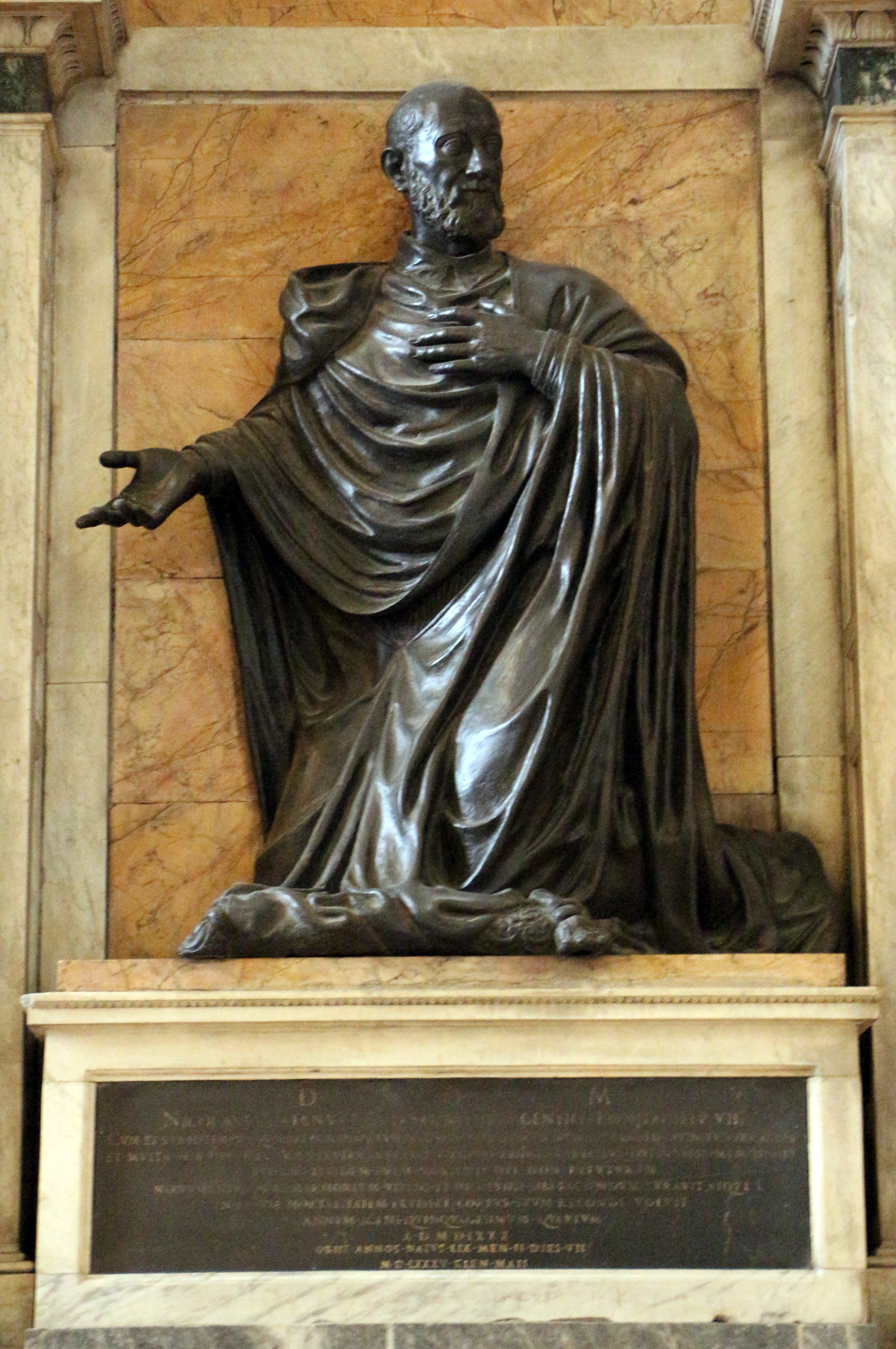 Santuario della Santa Casa (Loreto) - Interior